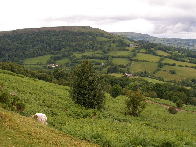 Downhill towards The Tumble Gilwern Hill with its transmitter lies beyond the patchwork of fields.